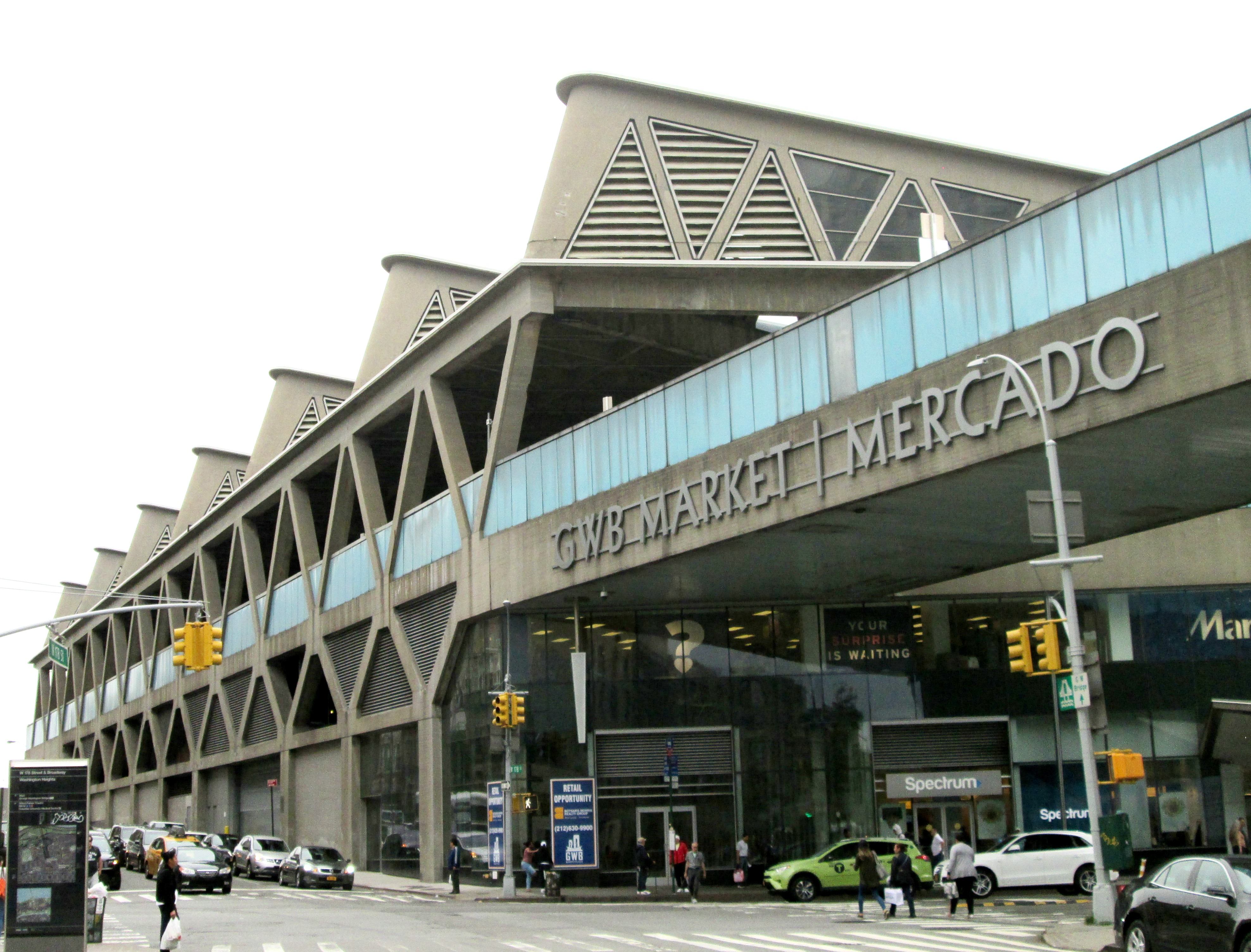 The George Washington Bridge Bus Station, located between Fort Washington and Wadsworth Avenues and 178th and 179th Streets in the Washington Heights neighborhood of Manhattan, New York City, straddles the Trans-Manhattan Expressway (Interstate 95). It was built in 1963 and was designed by the Port Authority of New York and New Jersey and Pier Luigi Nervi. (Source: AIA Guide to NYC (5th ed.) This image was taken from the southeast corner of Broadway and 178th Street.